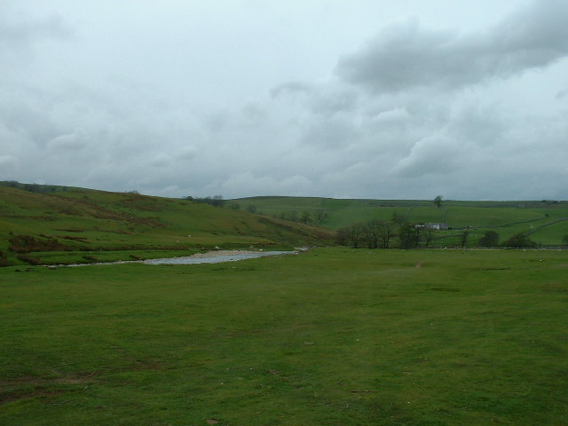 River Eden, Lammerside, Cumbria. This is looking north, at the end of the Mallerstang valley near Kirkby Stephen.